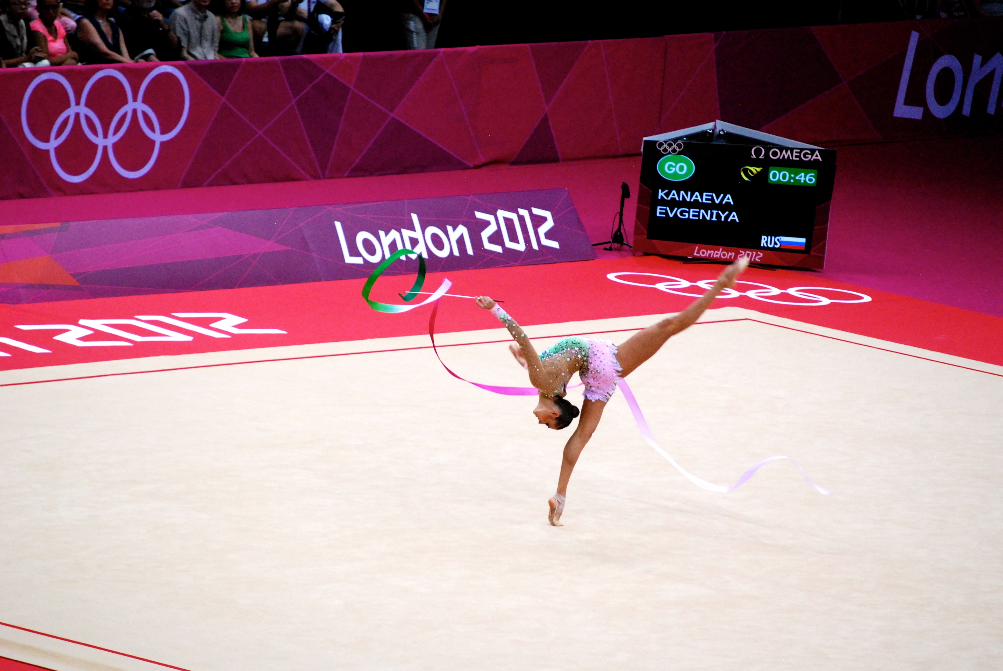 Yevgeniya Kanayeva at the 2012 London Summer Olympics